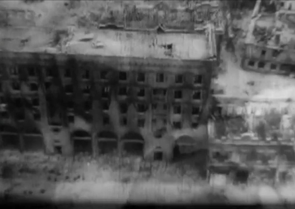 House on Khreshyatik 29 (old enumeration) from video footage taken from airplane by soviet army during liberation of Kiev in November 1943